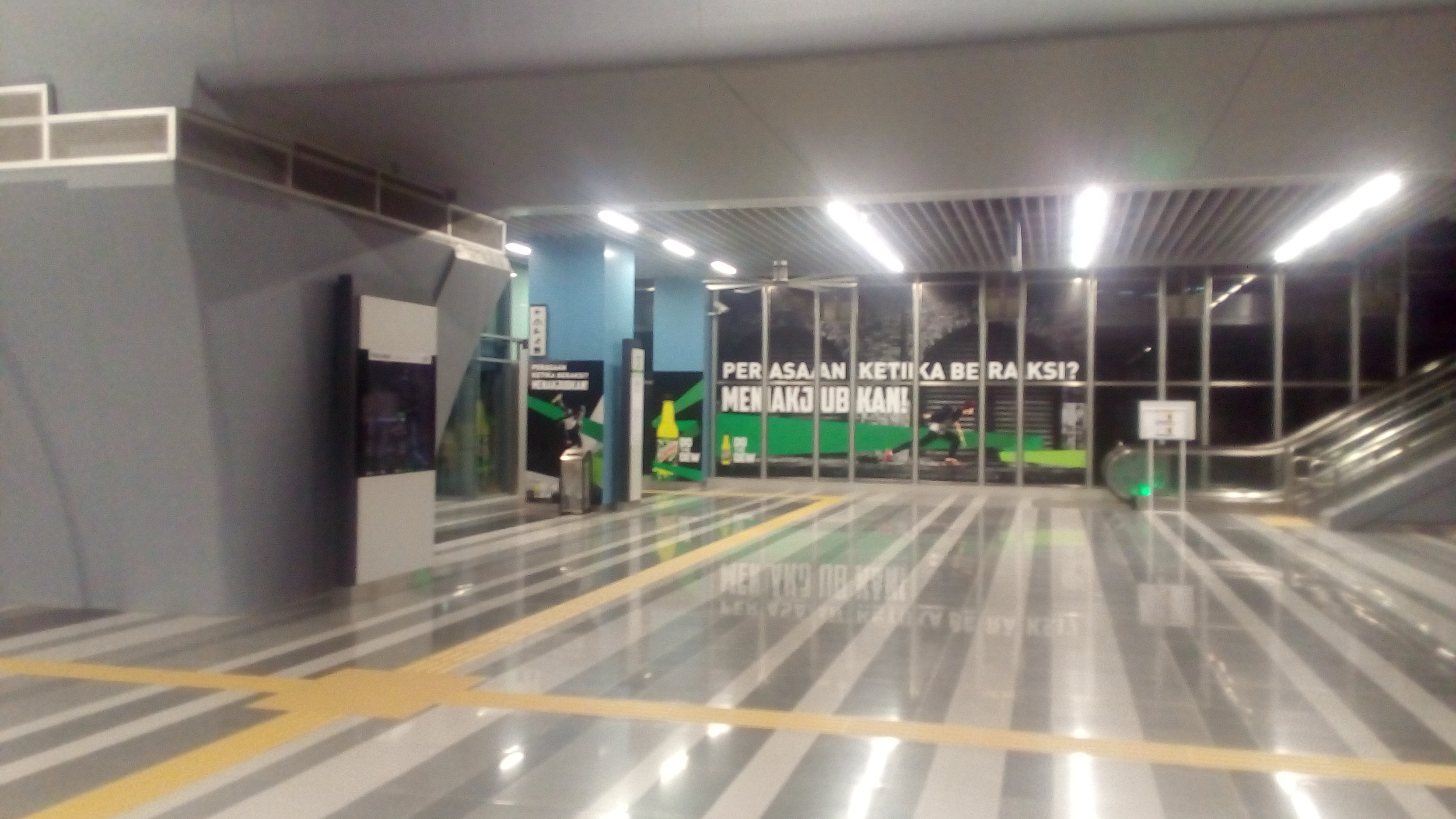 A part of Bandar Utama station